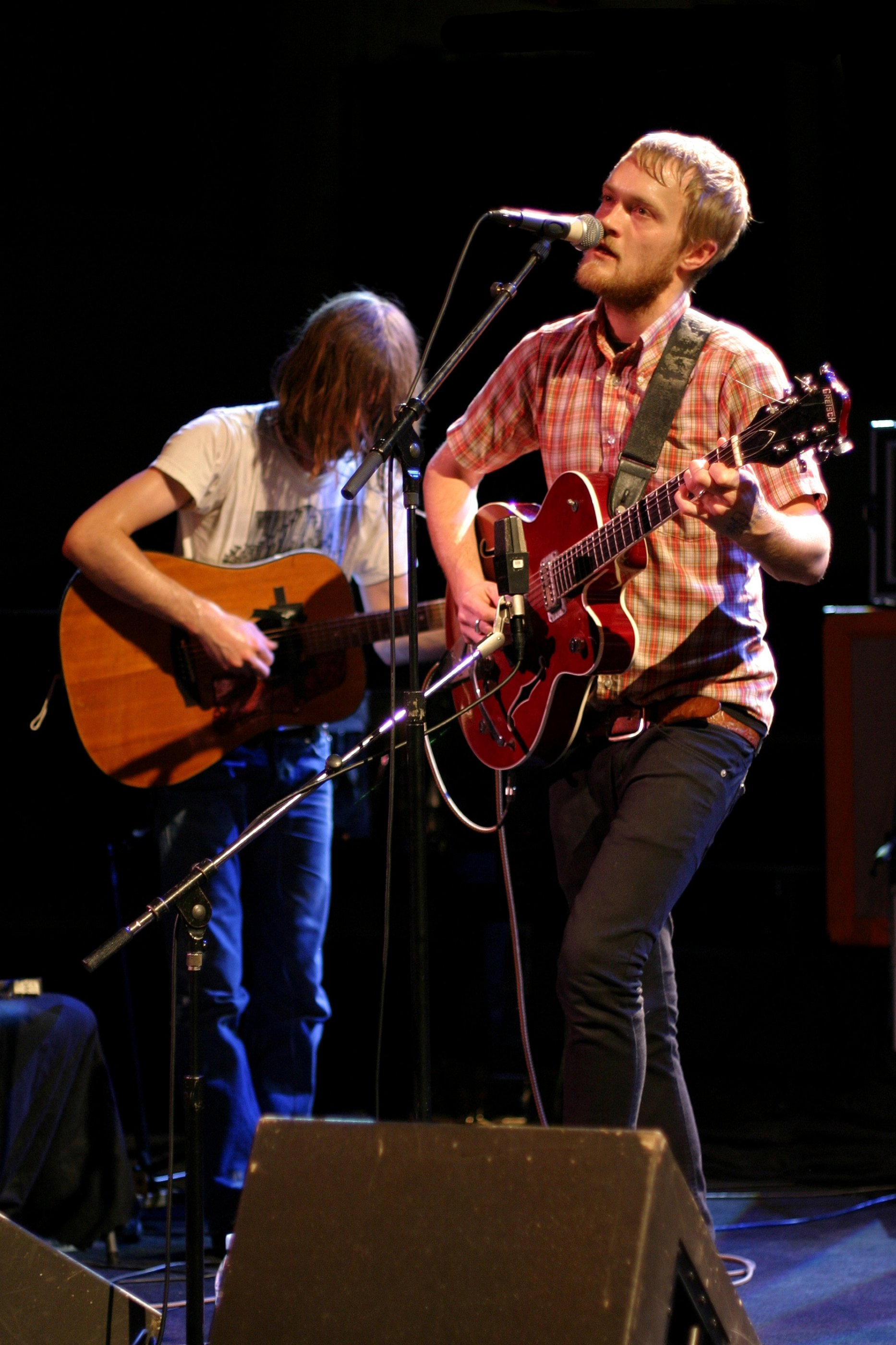 Two Gallants - Black Session #274 - December 17, 2007 - Maison de la radio - Paris XVIème (F)